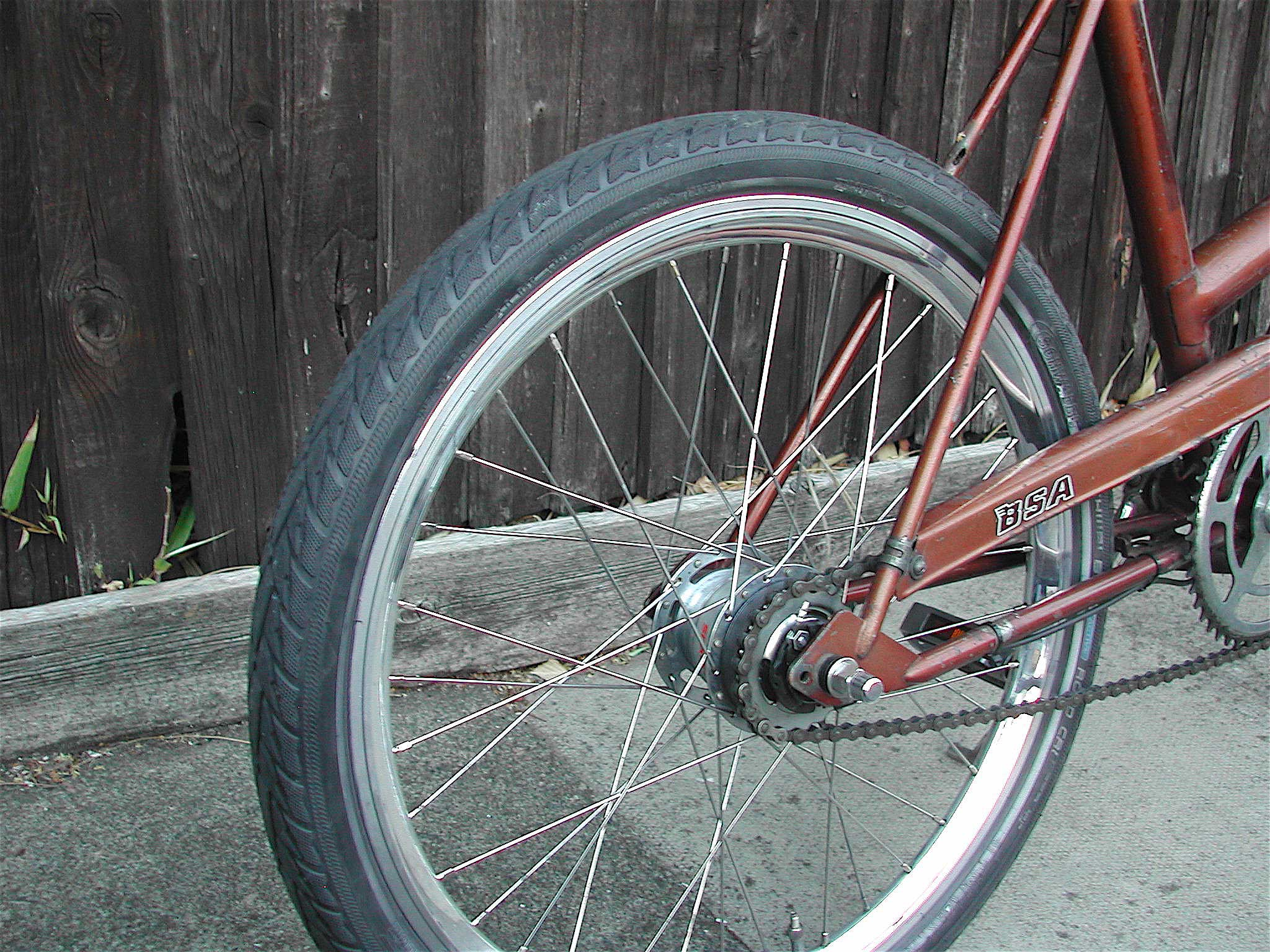 Shimano Nexus Inter 7 Hub Gear